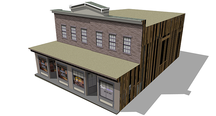 2D image, exported from a 3D model, of a building that once existed, until 1976, on the now demolished RKO Studios backlot called Forty Acres. The building was used as a film set and appeared on the popular television series The Andy Griffith Show as the location for Floyds, a fictitious barbershop that apperared routinely throughout the series’ run. The building also appeared on Star Trek in a 1967 episode entitled "The City on the Edge of Forever", in front of which characters Captain James T. Kirk (William Shatner) and Edith Keeler (Joan Collins) walked hand in hand by the radio repair shop and grocer. In the same scene was Floyds barbershop, which was to the right of the music repair shop.